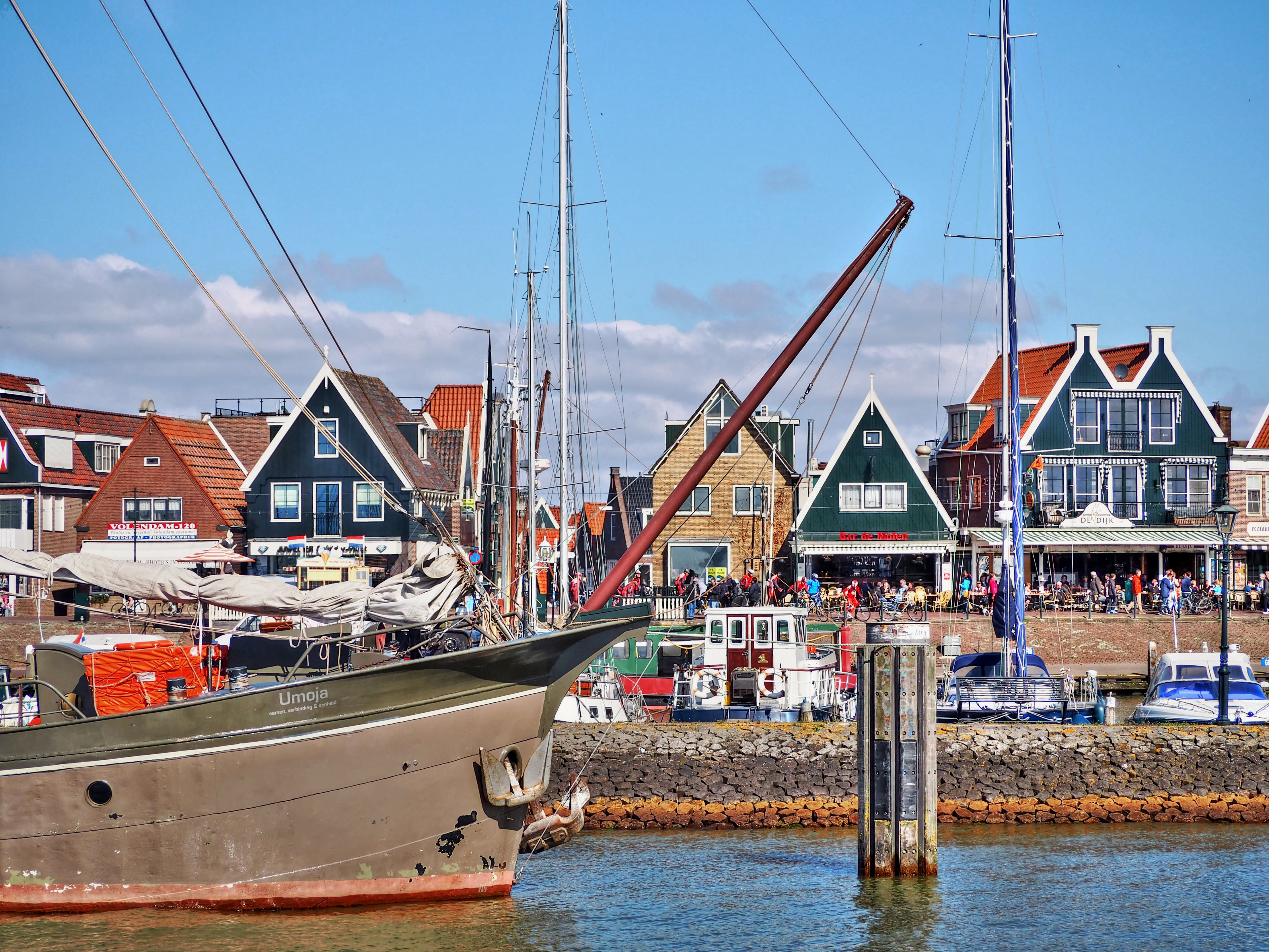 Volendam is about 20 miles away from Amsterdam and is a major tourist destination as well as a target for cyclists looking for a medium day ride from the city. hdr Web Sites using this foto